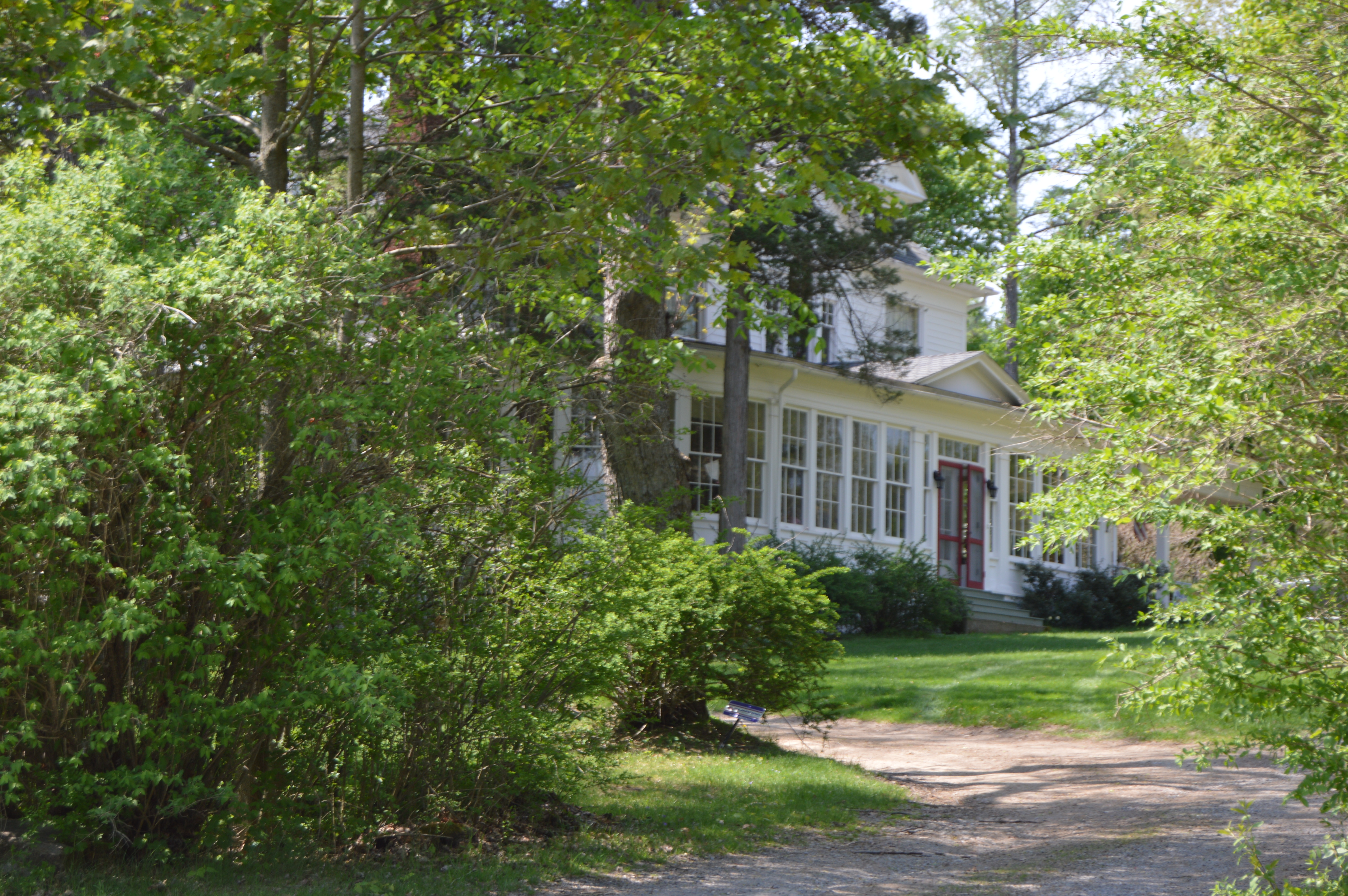 Roadside view of the Sen. Joseph O. Clark House, located at 247 First Avenue in Glen Campbell, Pennsylvania, United States. Built in 1901, it is listed on the National Register of Historic Places.